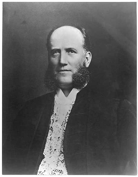 A portrait of Sir Joseph Palmer Abbott